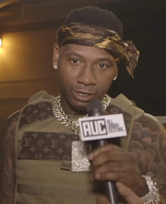 Moneybagg Yo in 2018